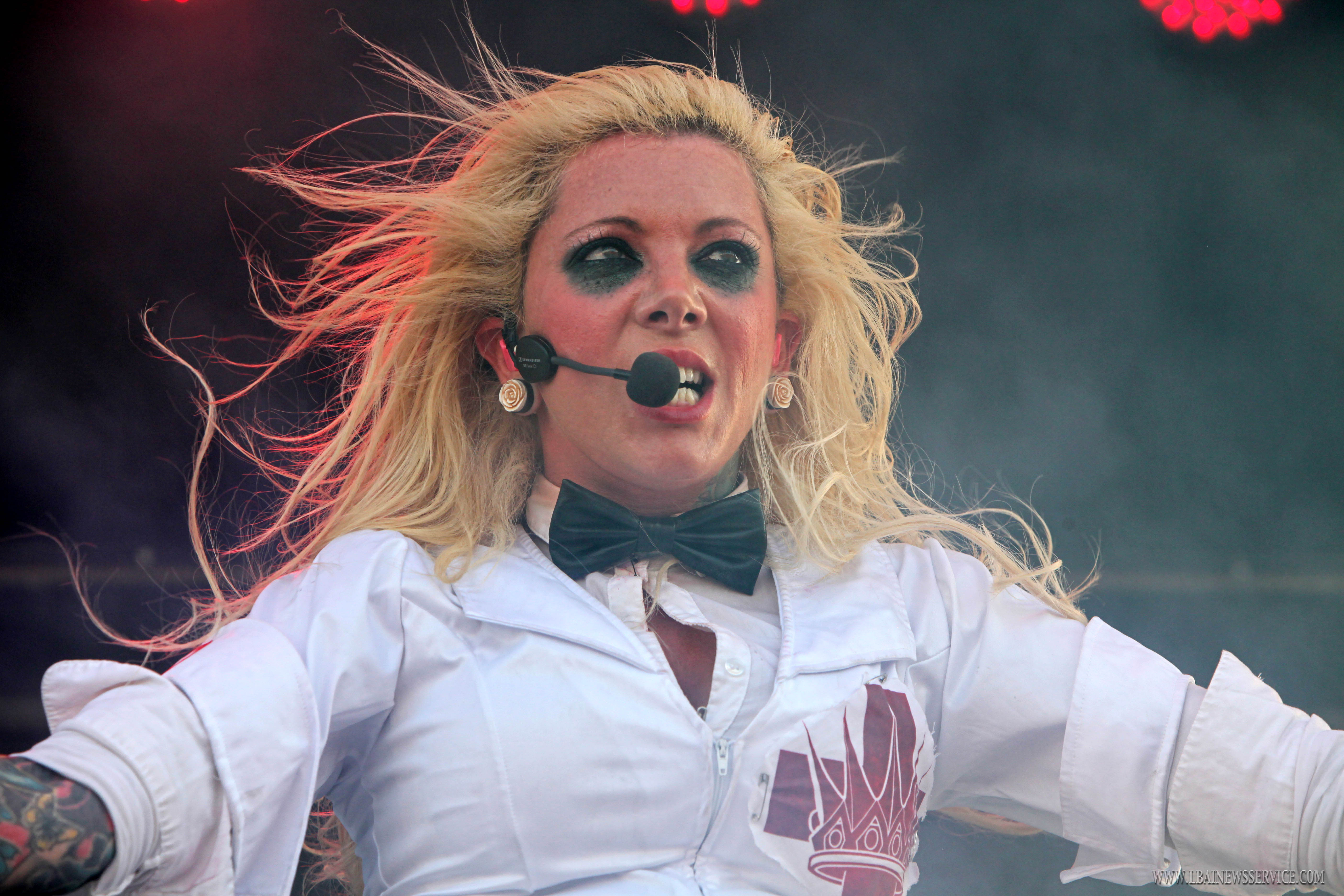 In This Moment performs at Fort Rock Festival 2013 at Jet Blue Park in Fort Myers - April 14, 2013